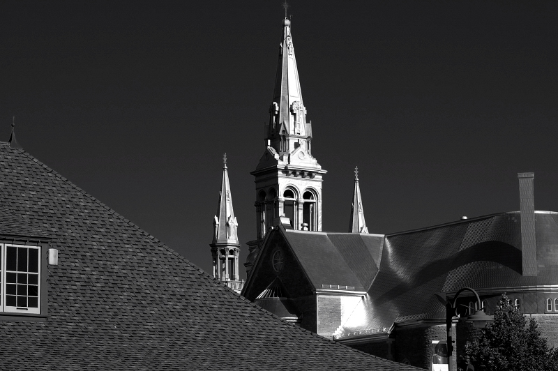 Saint-Jérôme cathedral